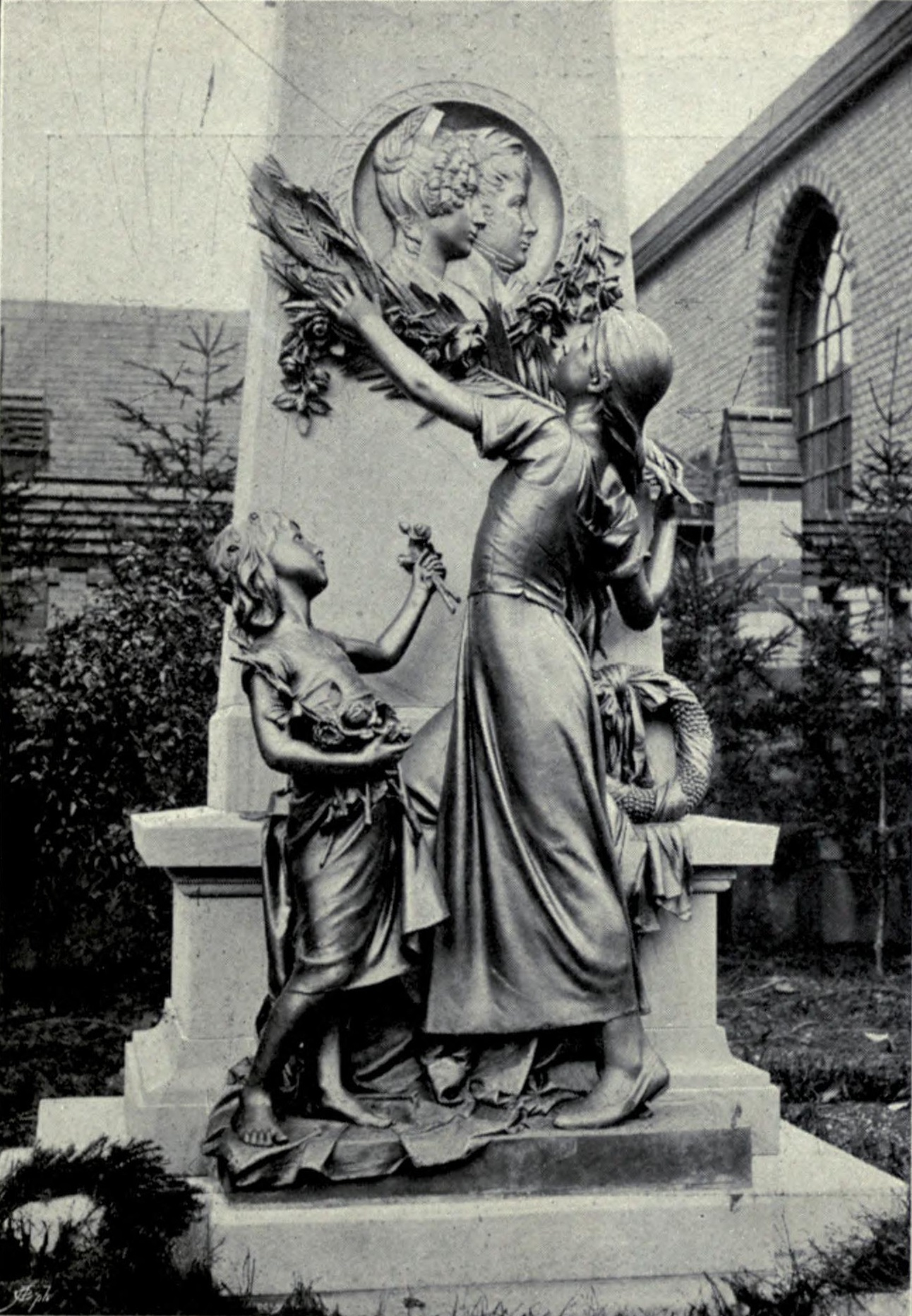 "A Memorial" from Heinrich Günther-Gera. The model for a memorial to pay hommage to married couple Zabel from Gera. Shown at the "Grosse Berliner Kunst-Ausstellung" from 1897. The memorial was inaugurated 24. Sept. 1895 in Gera near the building of the Zabel-School. It was disassembled during WW II.